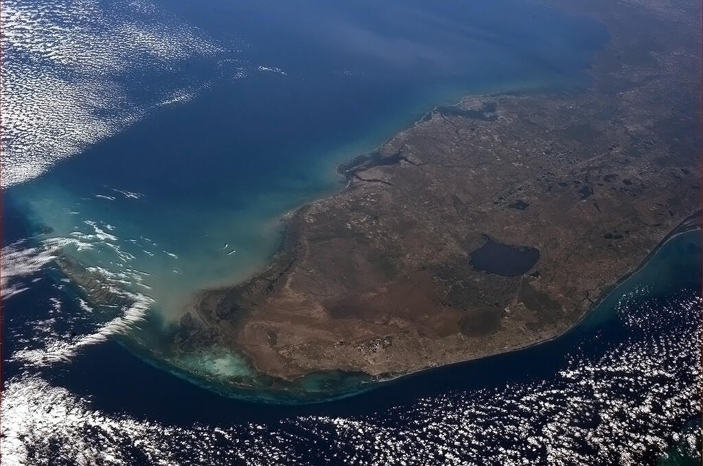 "South Florida from Earth orbit. Can you recognize the cities?" Caption by astronaut Chris Hadfield on board the International Space Station. The Miami, Tampa, & Orlando metropolitan areas are easily visible.